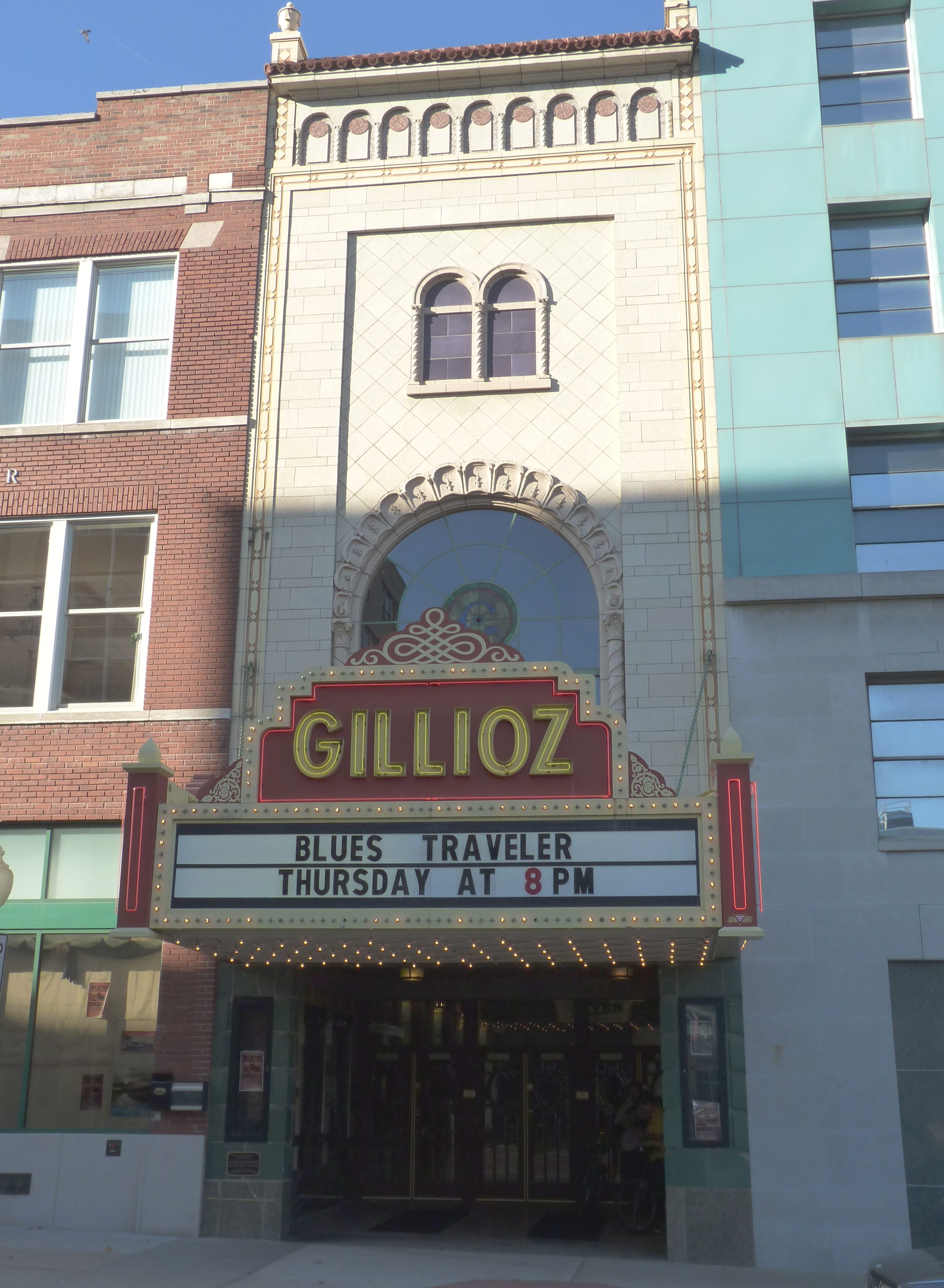 Old Gillioz theater on Route 66 in Springfield, Missouri.